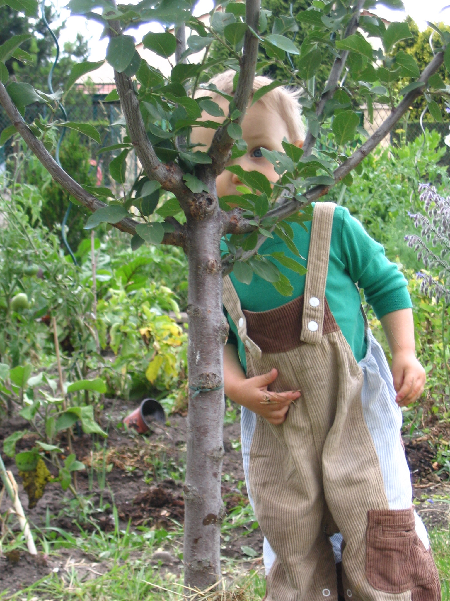 Boy in garden.